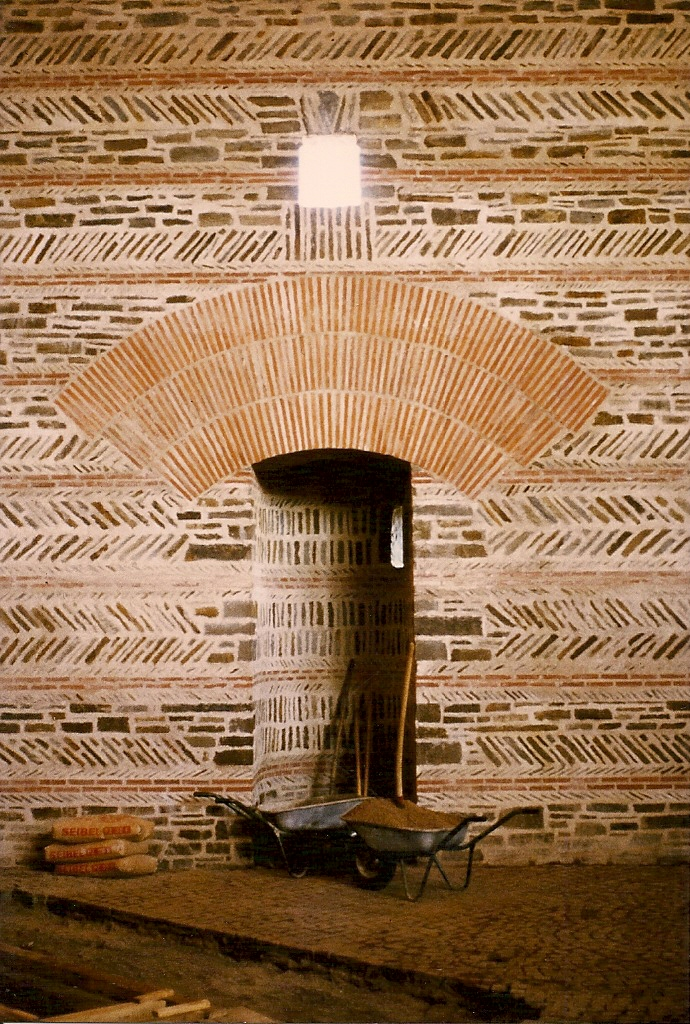 Kath. Kirche und Gemeindezentrum (1974)